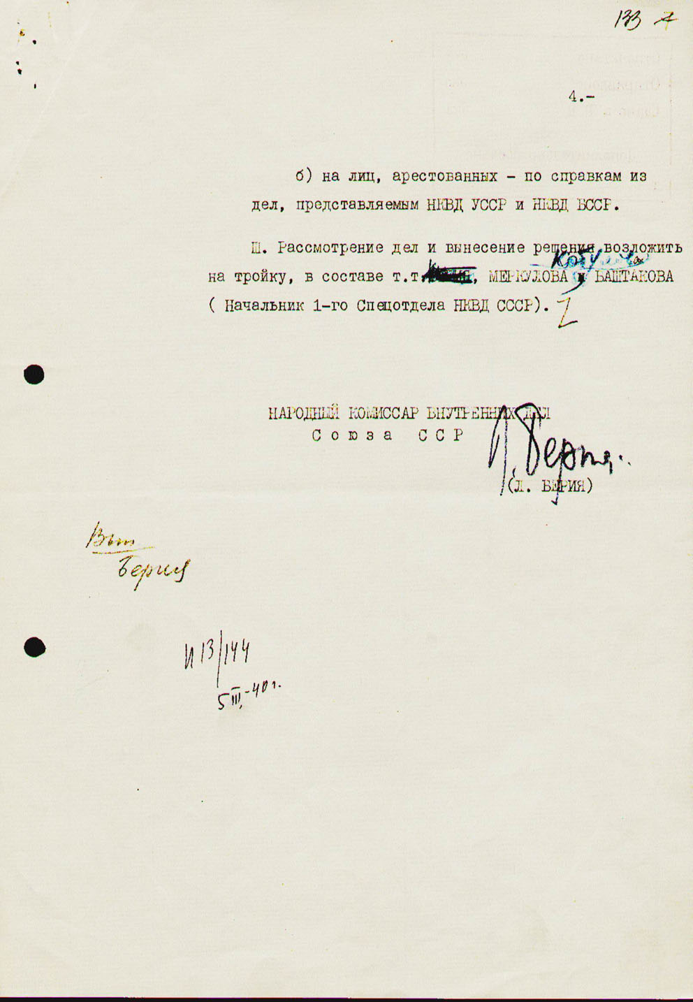 The accepted proposal of Lavrentiy Beria to execute former Polish army and police officers in NKVD prisoner of war camps and prisons, 5 March 1940